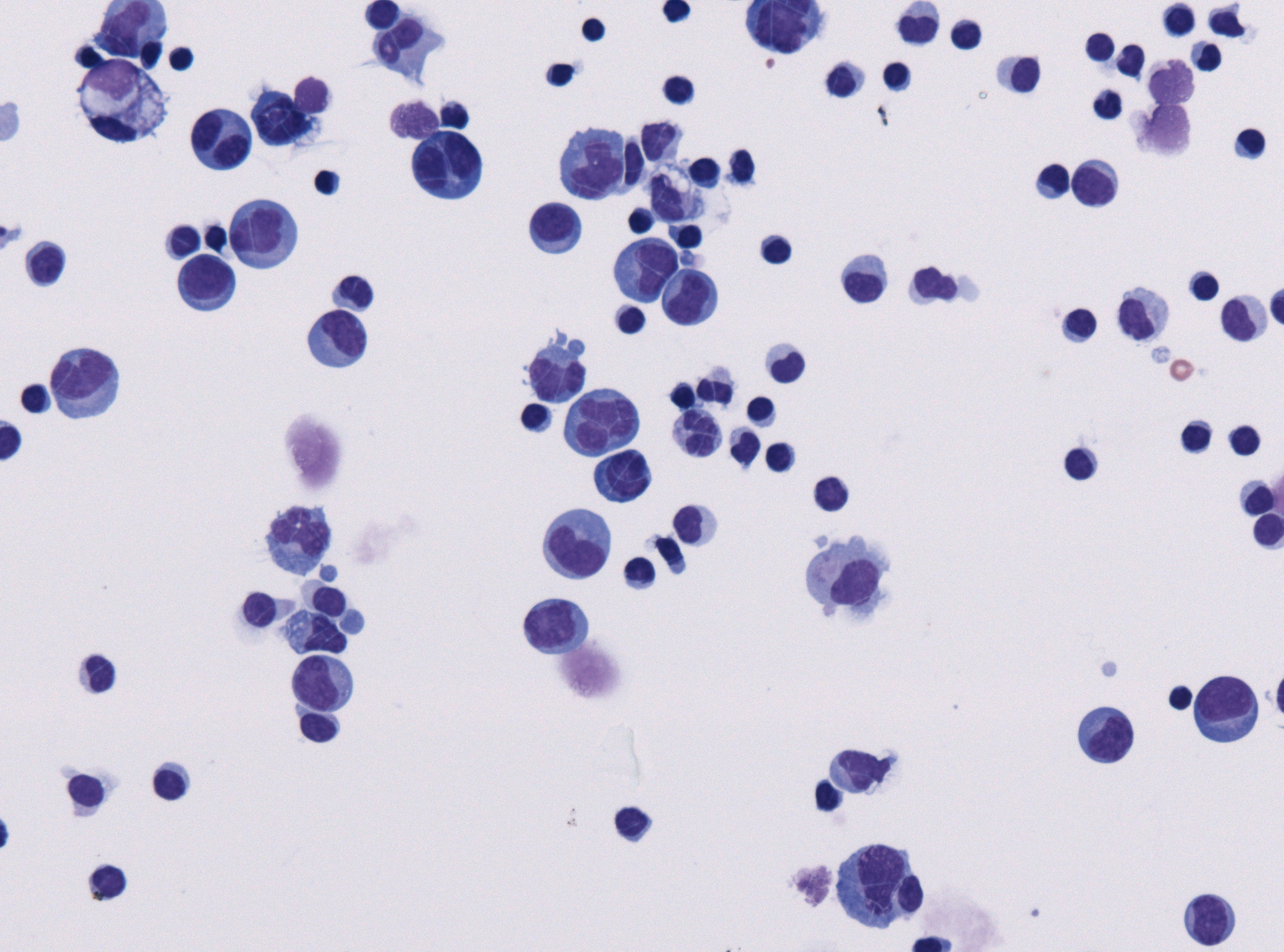 CSF cytology of a diffuse large B-cell non hodgkin lymphoma. Atypical cells are larger and have a basophilic cytoplasm (Pappenheim stain)